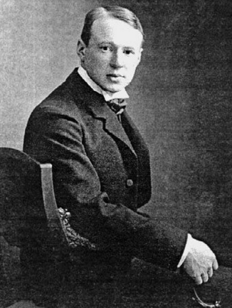 Russian artist, Boris Anrep, c. 1919 with Anrep aged 36.